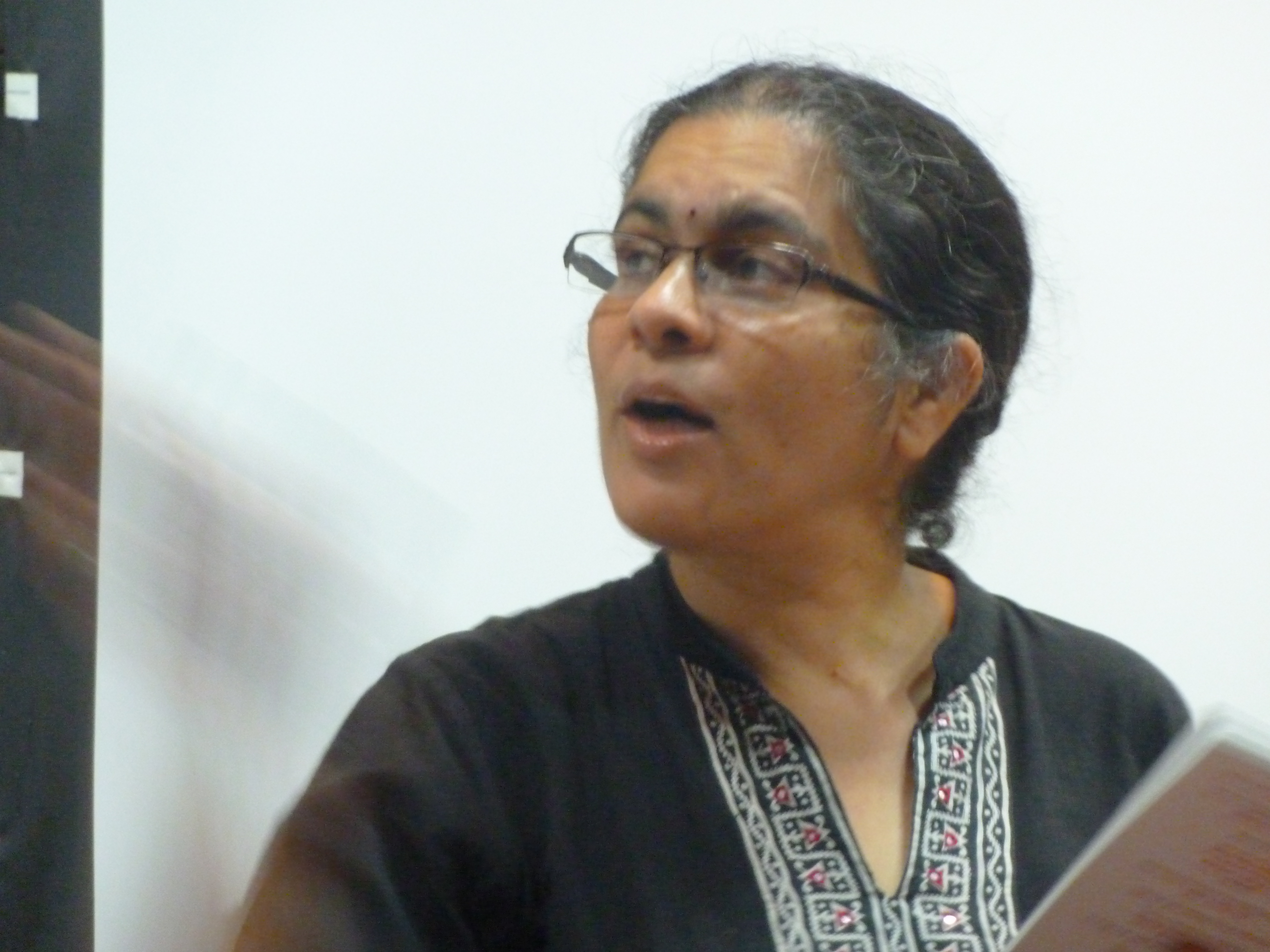 Dr Madhavi Sardesai, scholar and publisher. Goa University, India.